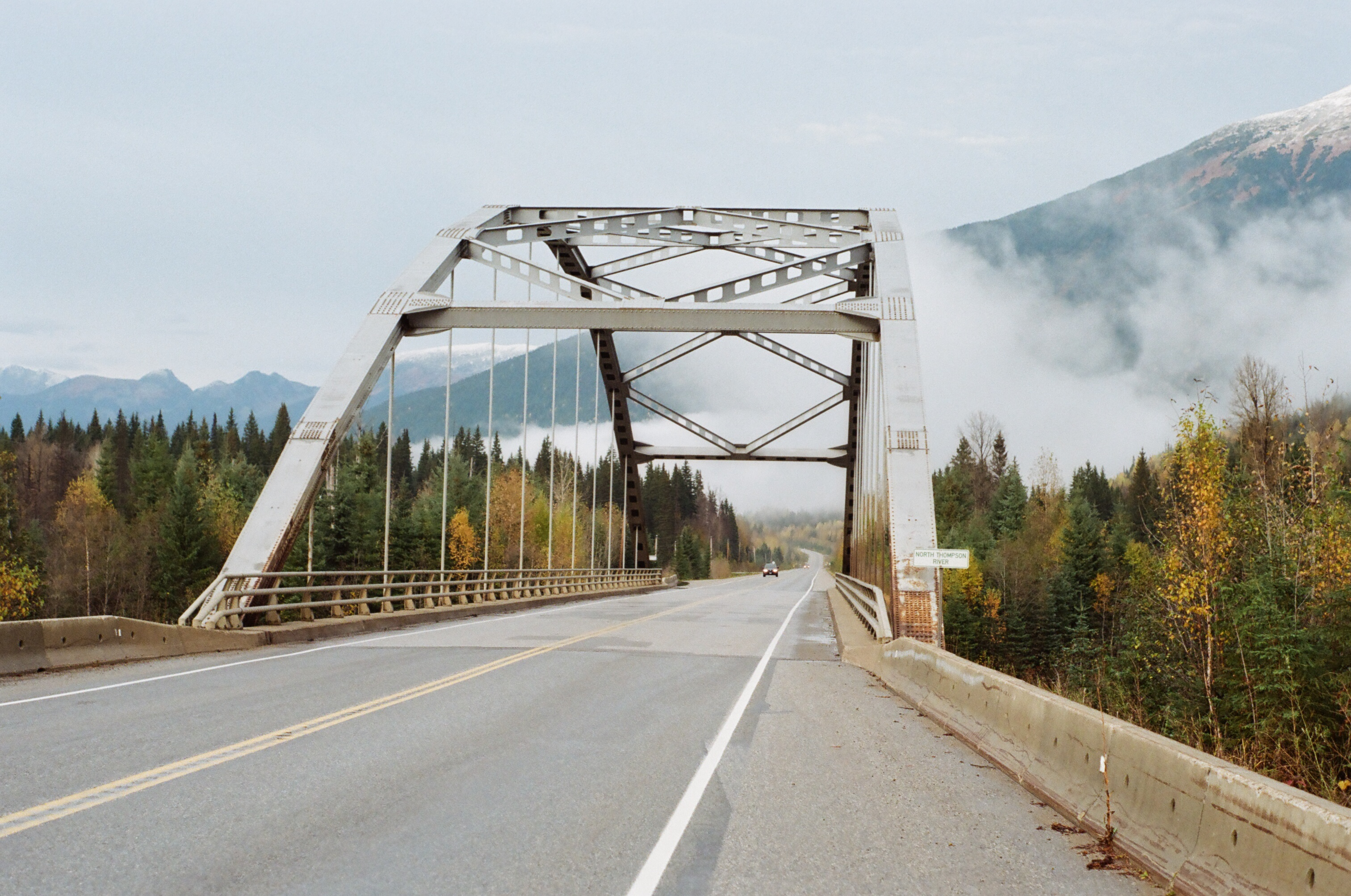 Hwy 5 Steel suspension bridge over N Thompson River